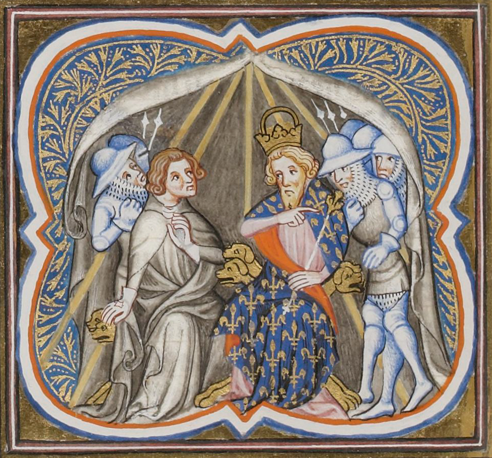 Louis the Pious driving away his son, Pepin I, king of Aquitaine. (60 x 65 mm) Grandes Chroniques de France (BNF, FR 2813)